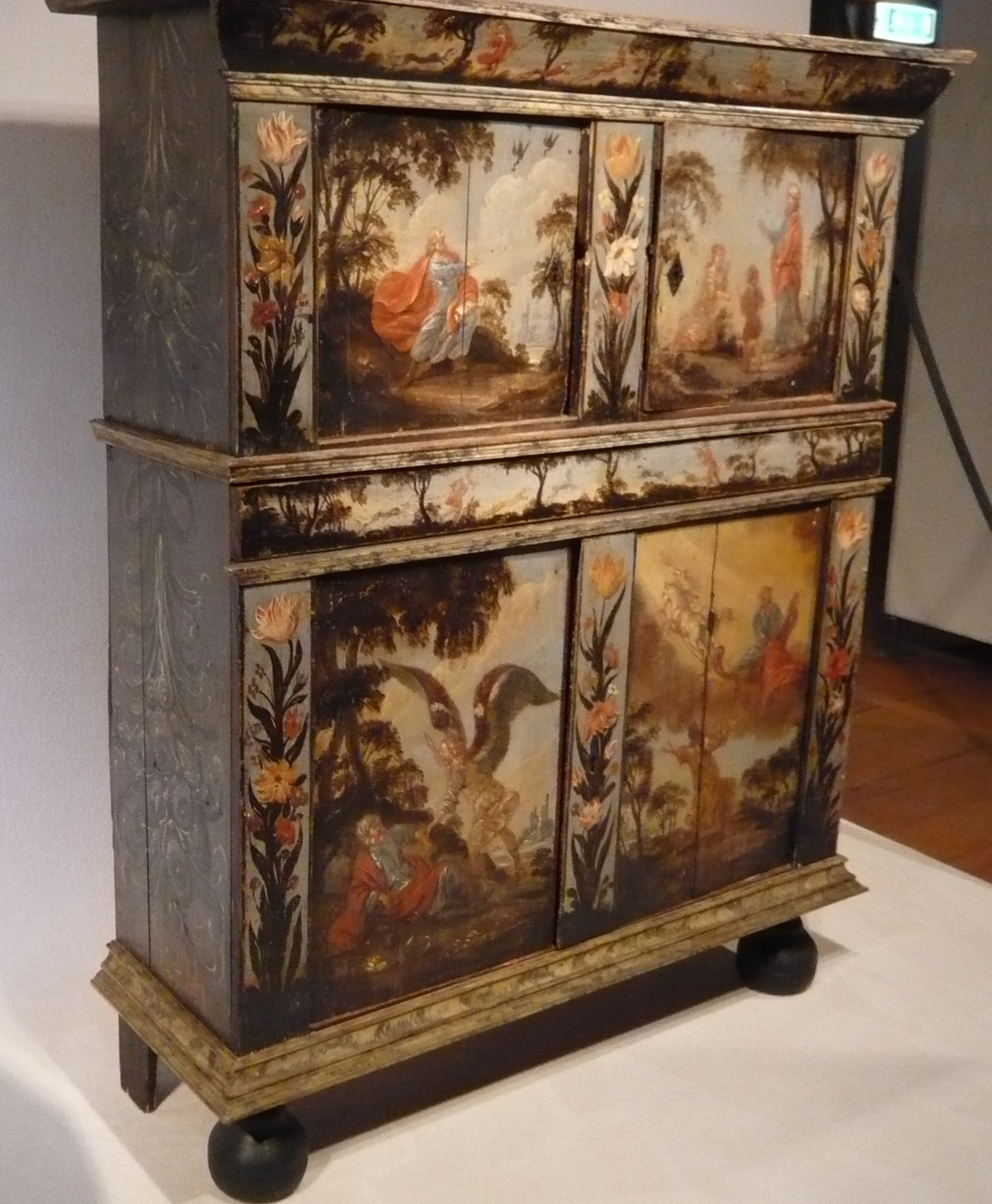 Zuiderzee museum, Enkhuizen. 18th century Marker kast; painted with scenes from the life of Elijah: Upper left: Elijah being fed by the ravens (Kings 1 17:5-17:6) Upper right: Elijah telling the widow of Sarepta to eat (Kings 1 17:12) Lower left: Elijah in the desert and the angel who tells him to eat (Kings 1 19:5-17:6) Lower right: Elijah rises to heaven in a chariot of fire (Kings 2 2:11)